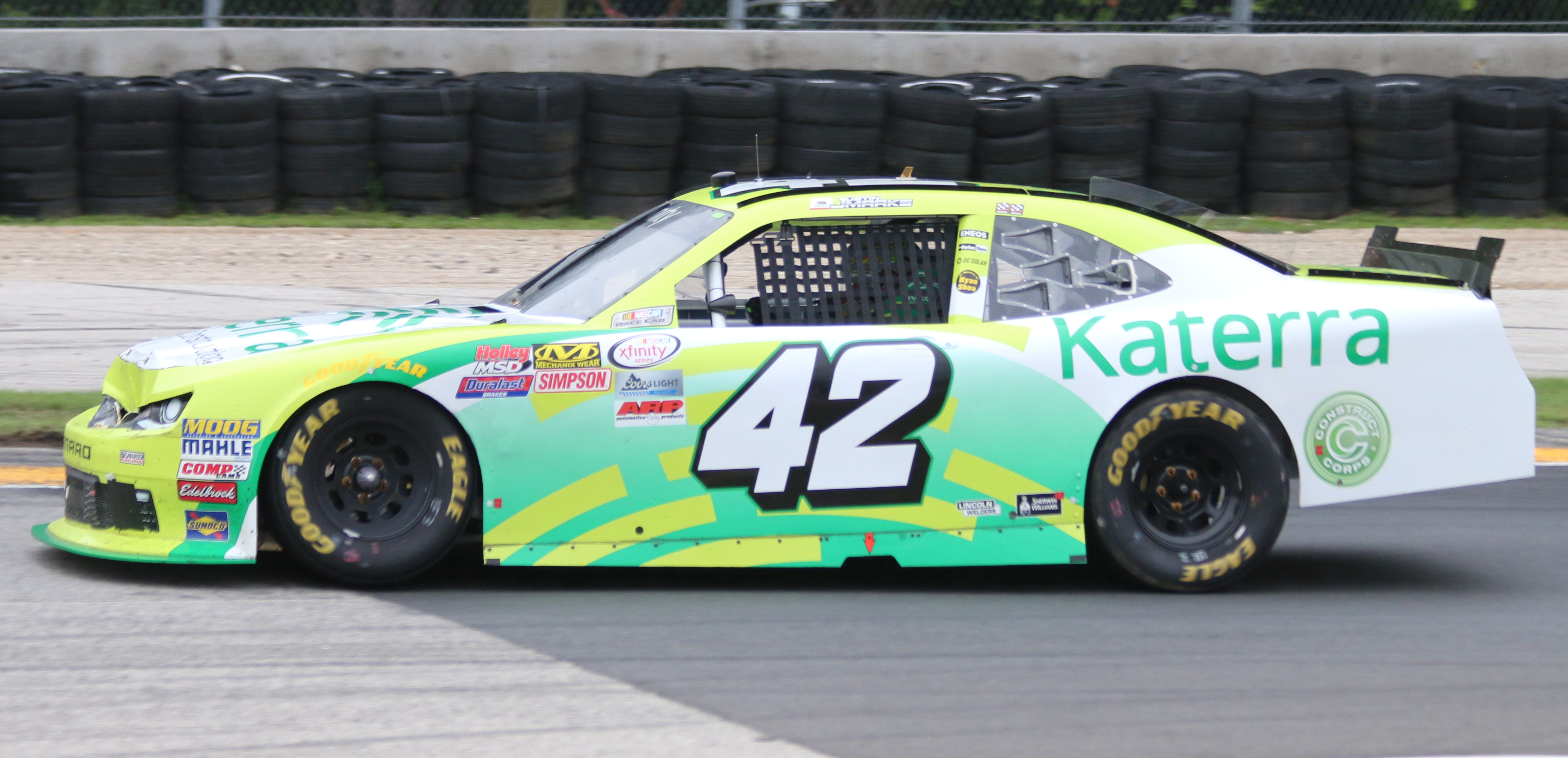 The Chevrolet Camaro of Justin Marks at the NASCAR Xfinity Series Road America 180.